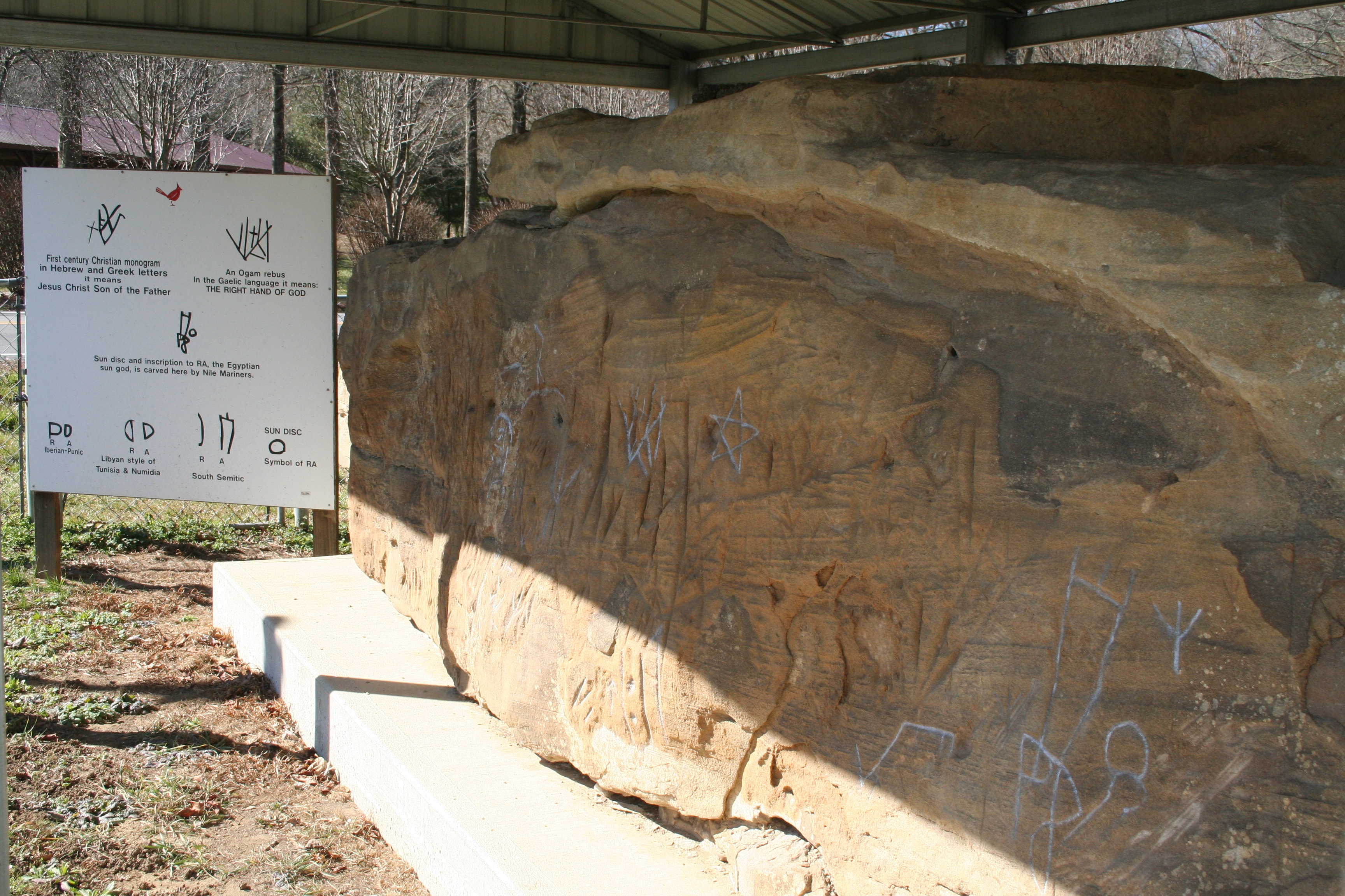 Red Bird Petroglyph Stone, photo by Daron Rainer